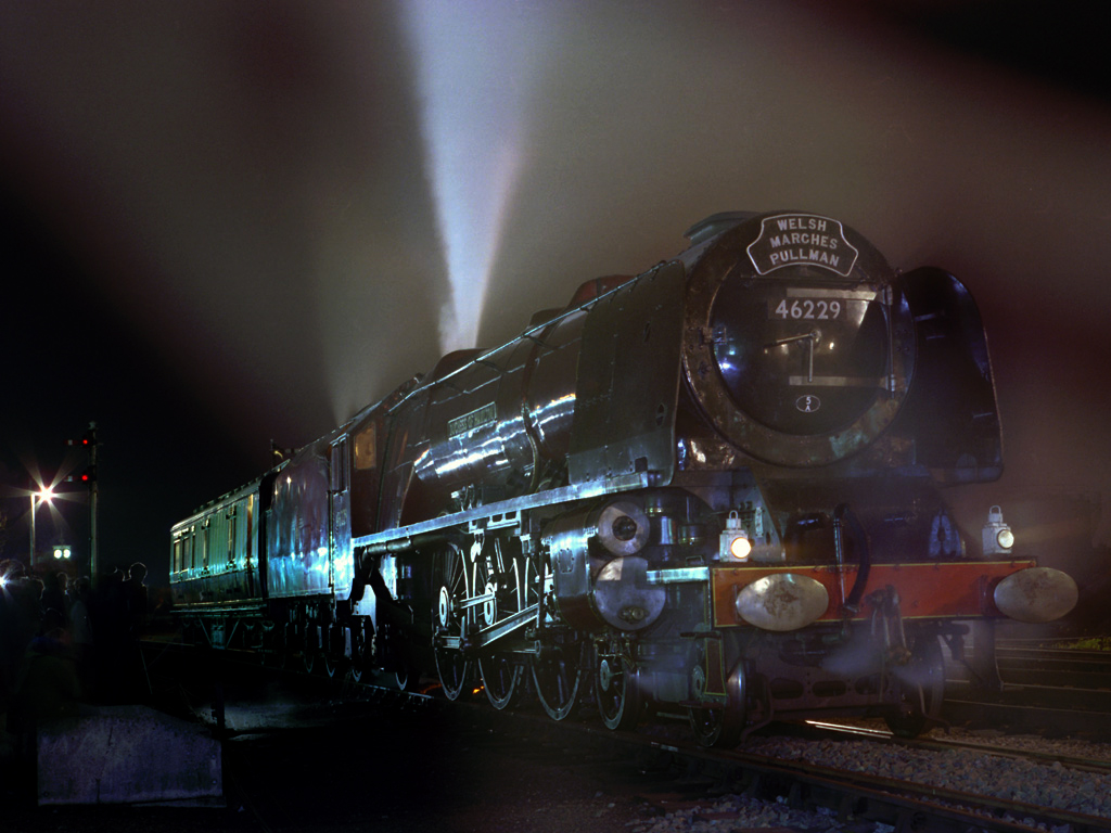 British Railways rebuilt London Midland and Scottish Railway Stanier 8P 4-6-2 ?Coronation? class locomotive number 46229 DUCHESS OF HAMILTON of Crewe North MPD stands on the Up Goods Loop at Crewe Bank, Shrewsbury after working the Newport to Shrewsbury leg of a Welsh Marches Pullman charter. Sunday 31st October 1982